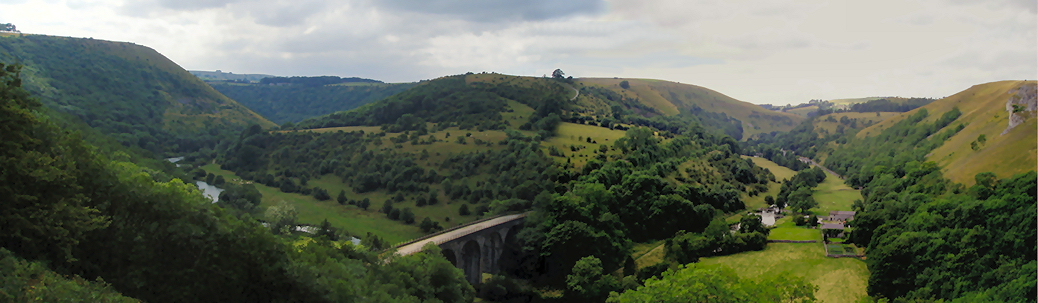 Edited version of Image:Monsal Dale panorama.jpg by User:Ostrich. I lightened the overall picture to reveal aspects of the landscape.